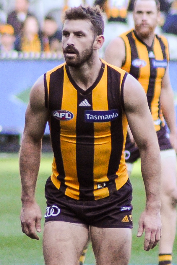 Brendan Whitecross during the AFL round twelve match between Melbourne and Collingwood on 10 June 2017 at the Melbourne Cricket Ground in Melbourne, Victoria.